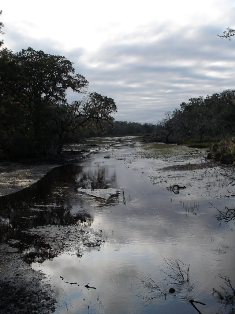 Marsh on Cumberland Island. I took the picture on March 26, 2005, nearby Plum Orchard.